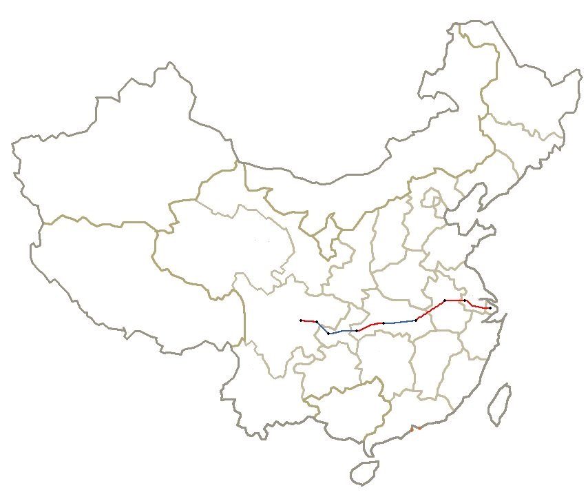 Map showing Shanghai-Chengdu Line (High-speed rail)